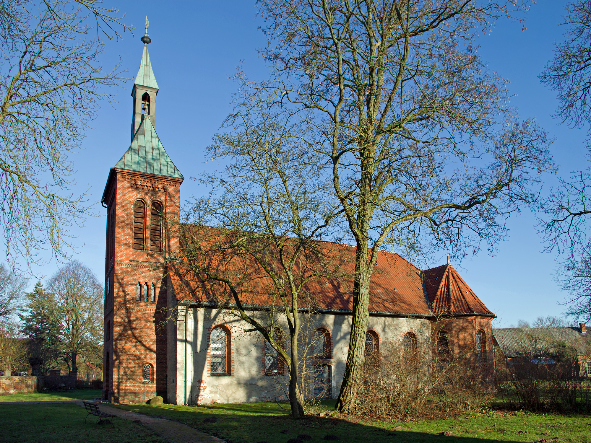 Church of the village Prezelle (district Lüchow-Dannenberg, Lower Saxony, Germany).